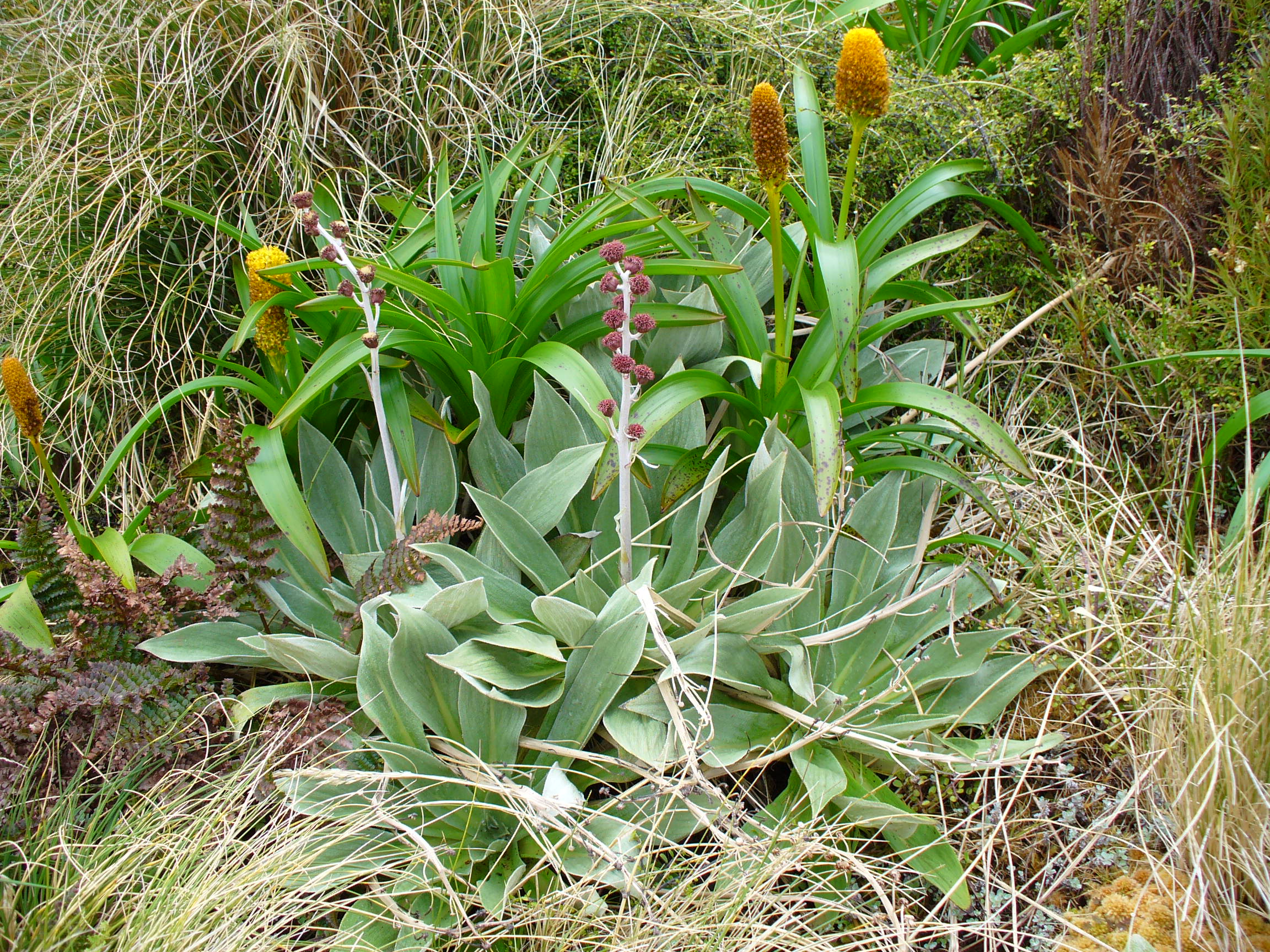 Pleurophyllum hookeri flowers, part of a megaherb community growing on Campbell Island, one of the sub-antarctic islands of New Zealand. The yellow flowers in the background are Bulbinella rossi. Also shown are tussock grasses. This photograph was taken by and originally posted to flikr by Twiddleblatt, under the title 'Pleurophyllum Hookeri on Campbell Island'.